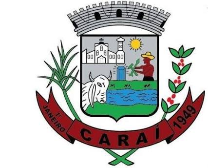 Coat of arms of the city of Caraí, Minas Gerais, Brazil.